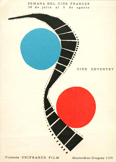 The logo of the Journal is a design by Antonio Pezzino, made in 1959 to illustrate the program of the French Film Week, which took place in Montevideo, at the Cine Club del Uruguay. The work was done directly on zinc plate.